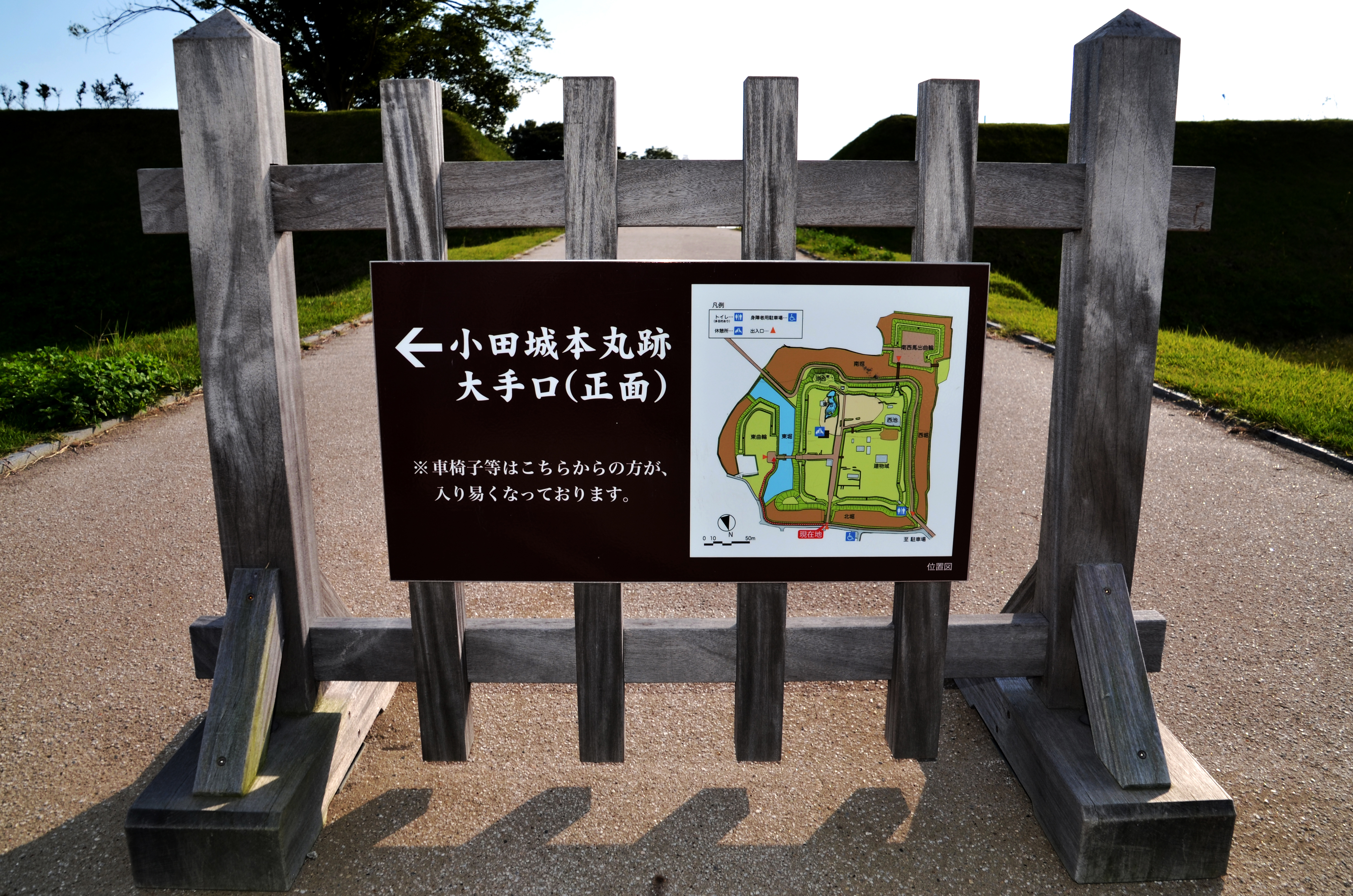 Oda Castle, Tsukuba City, Ibaraki Prefecture, Japan.